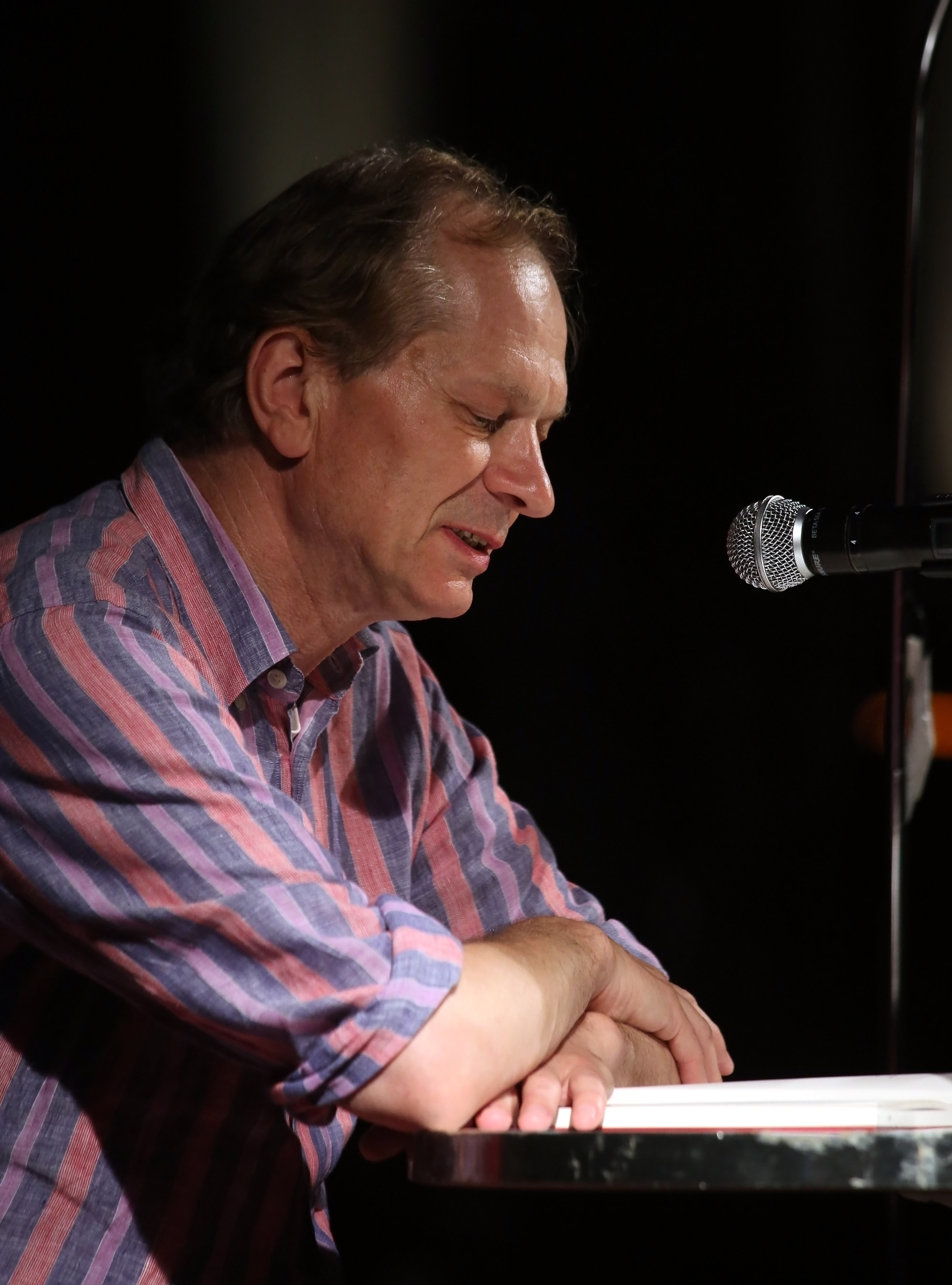 Josef Winkler, o-töne 2013 at Museumsquartier in Vienna.